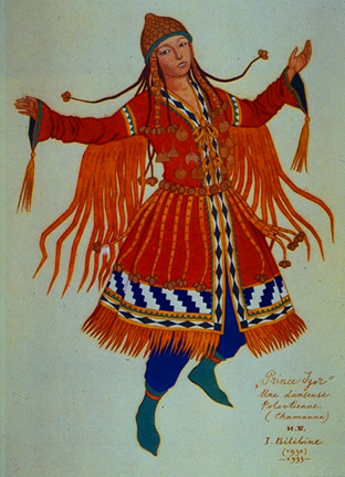 A POLOVTSIAN MAIDEN. Costume design for the opera "Prince Igor" by Borodin. 1930